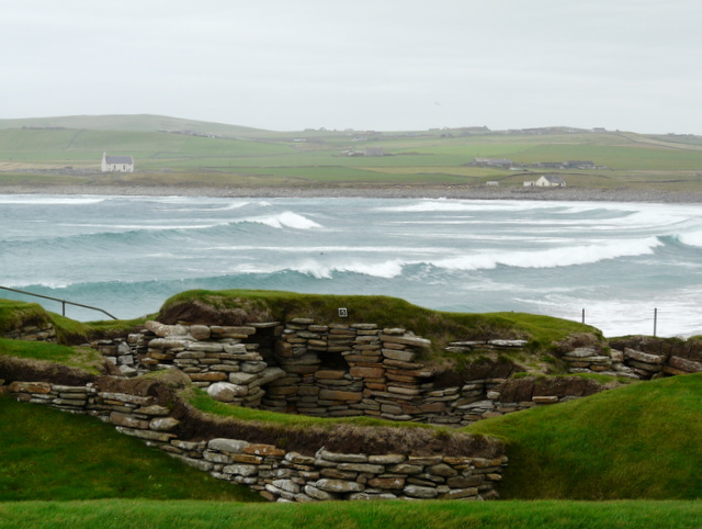 Skara Brae, Bay of Skaill in the background. This was a fine day with a stiff breeze: its easy to imagine a real storm re-arranging the landscape here!